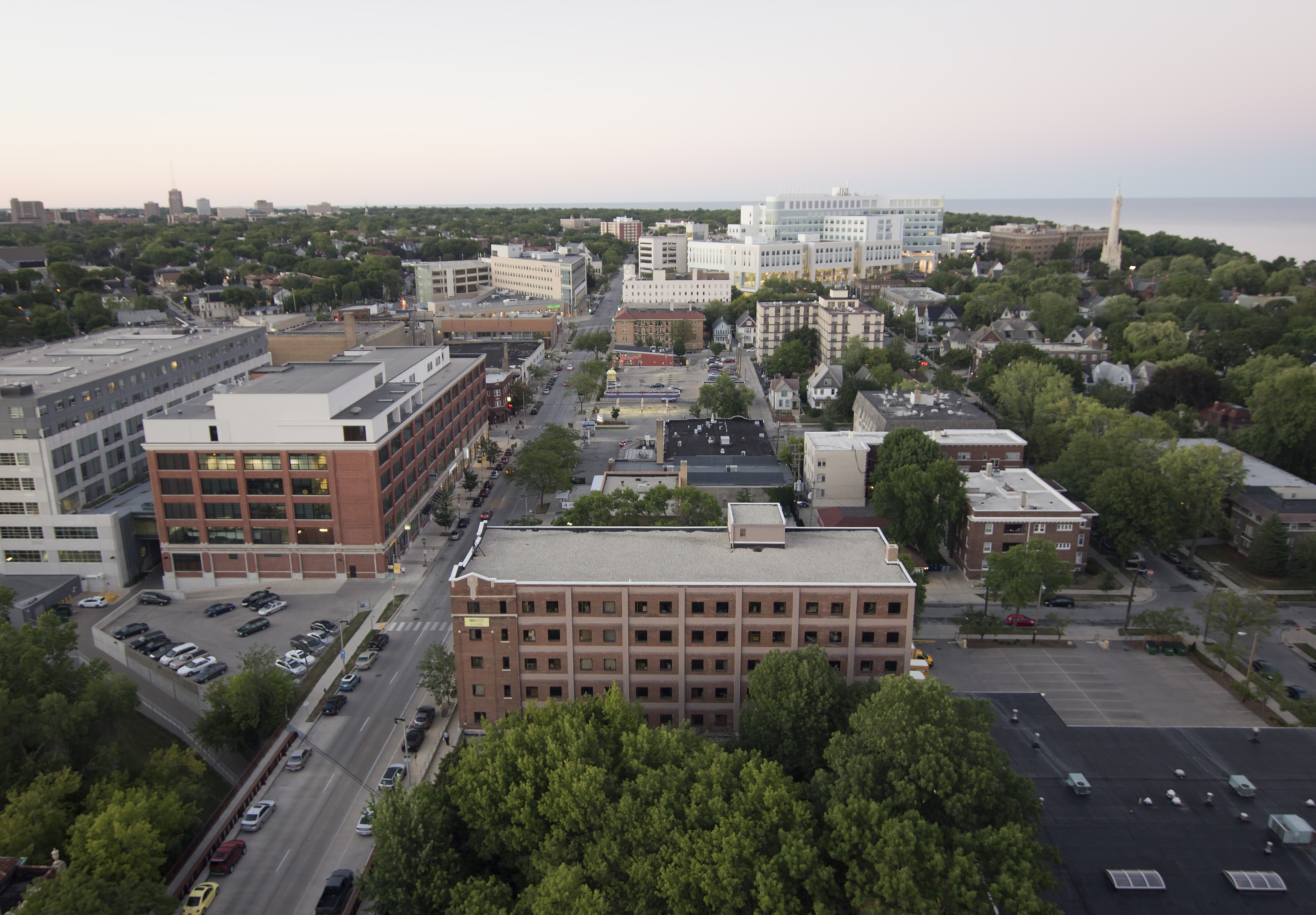 Milwaukee's East Side skyline, as seen from Park Lafayette North Tower in August 2012. Photo by Jon Kline.